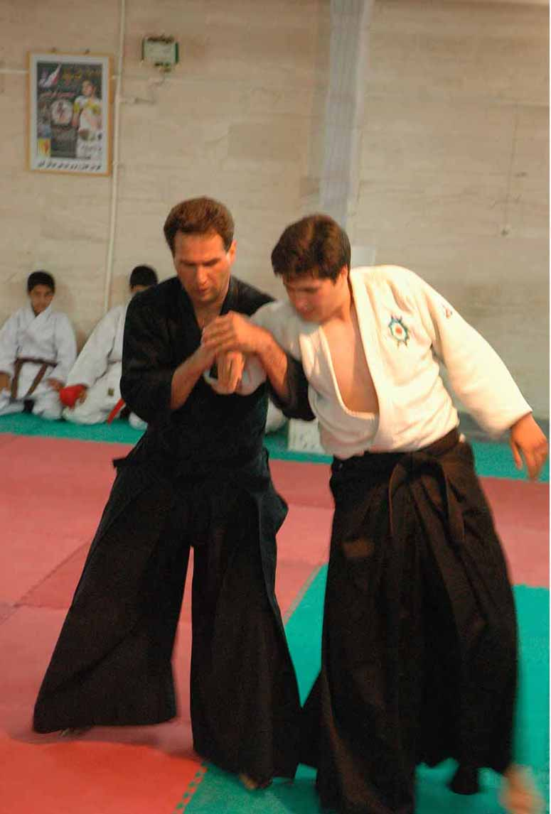 Sensei Behrouz Shojaei